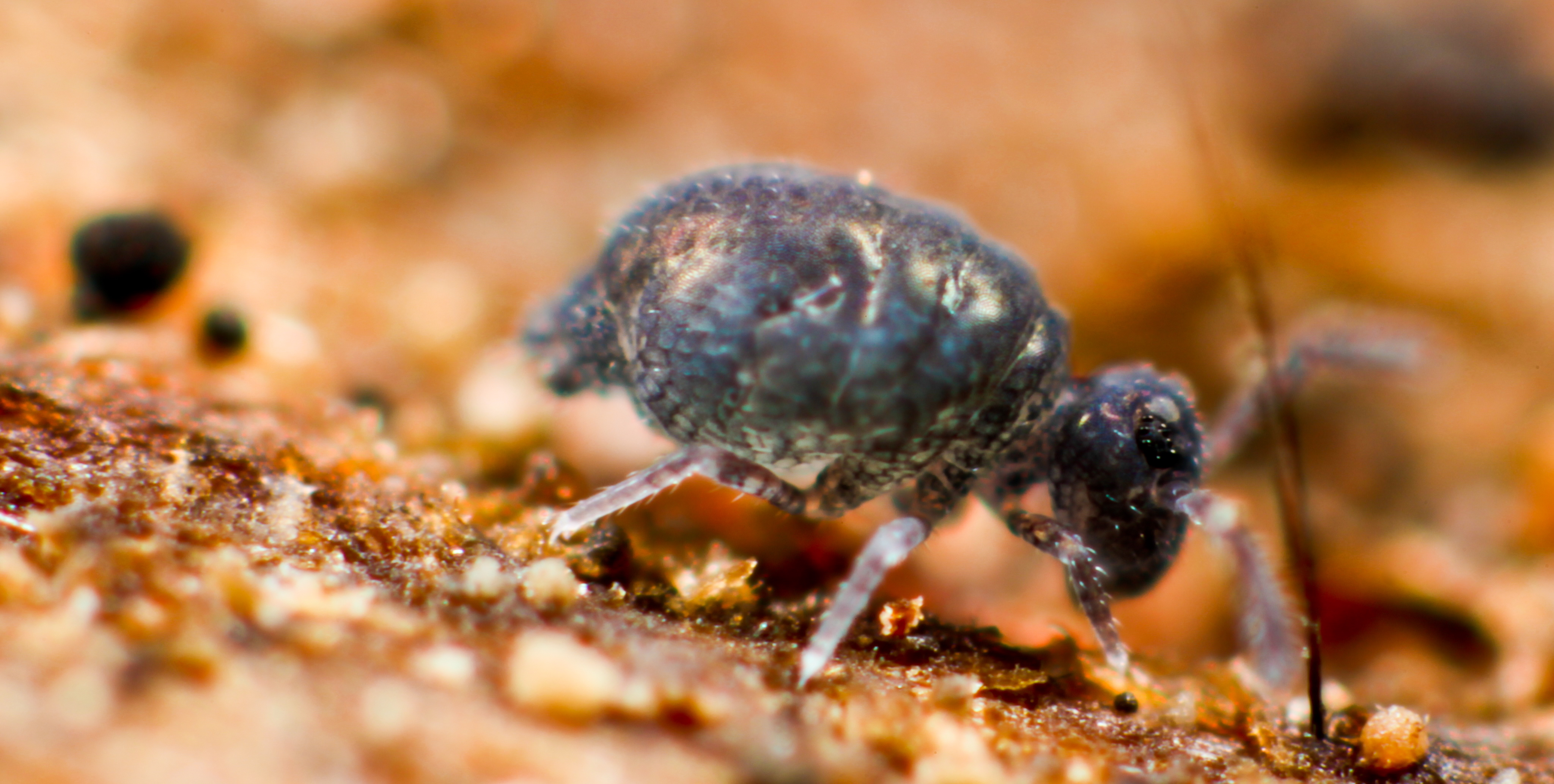 Sminthurinus niger from East Pennard, England, United Kingdom.